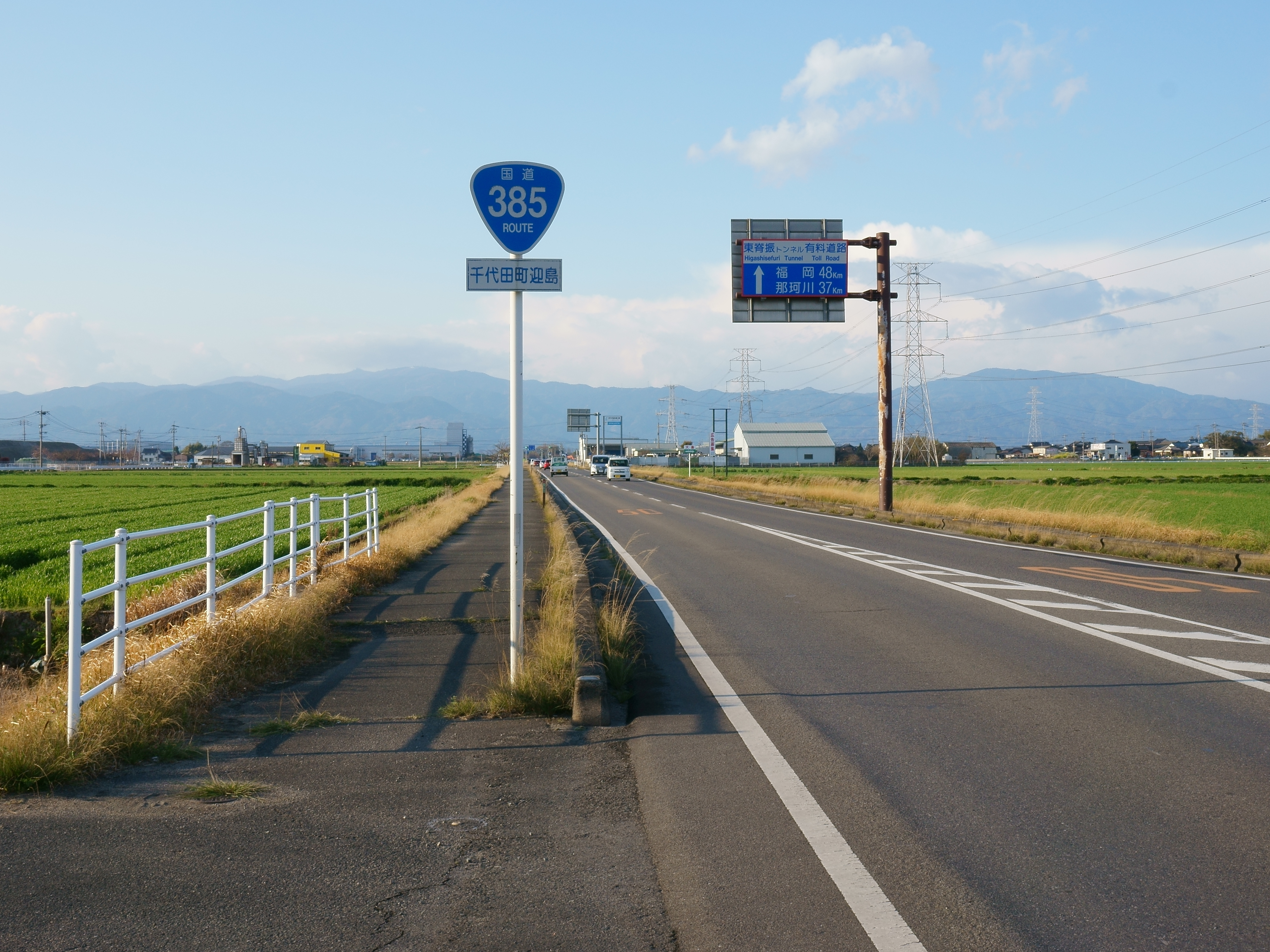 Japan National Route 385 in Chiyodacho Mukaishima, Kanzaki, Saga prefecture.